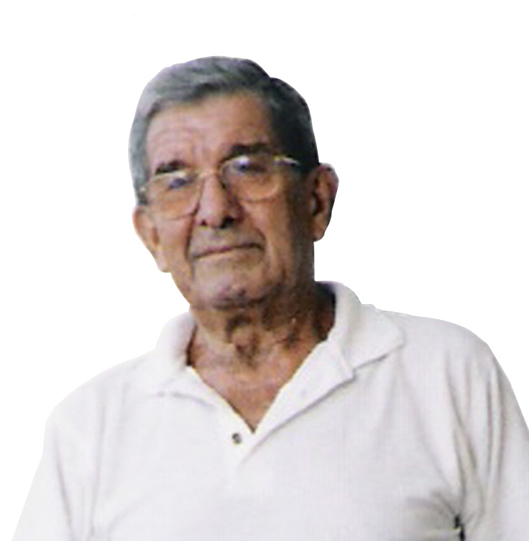 Tzadok Eshel